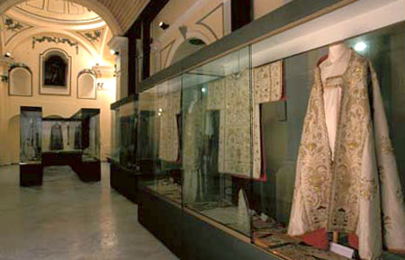 Showroom of Ariano Irpino Diocesan Museum, Italy